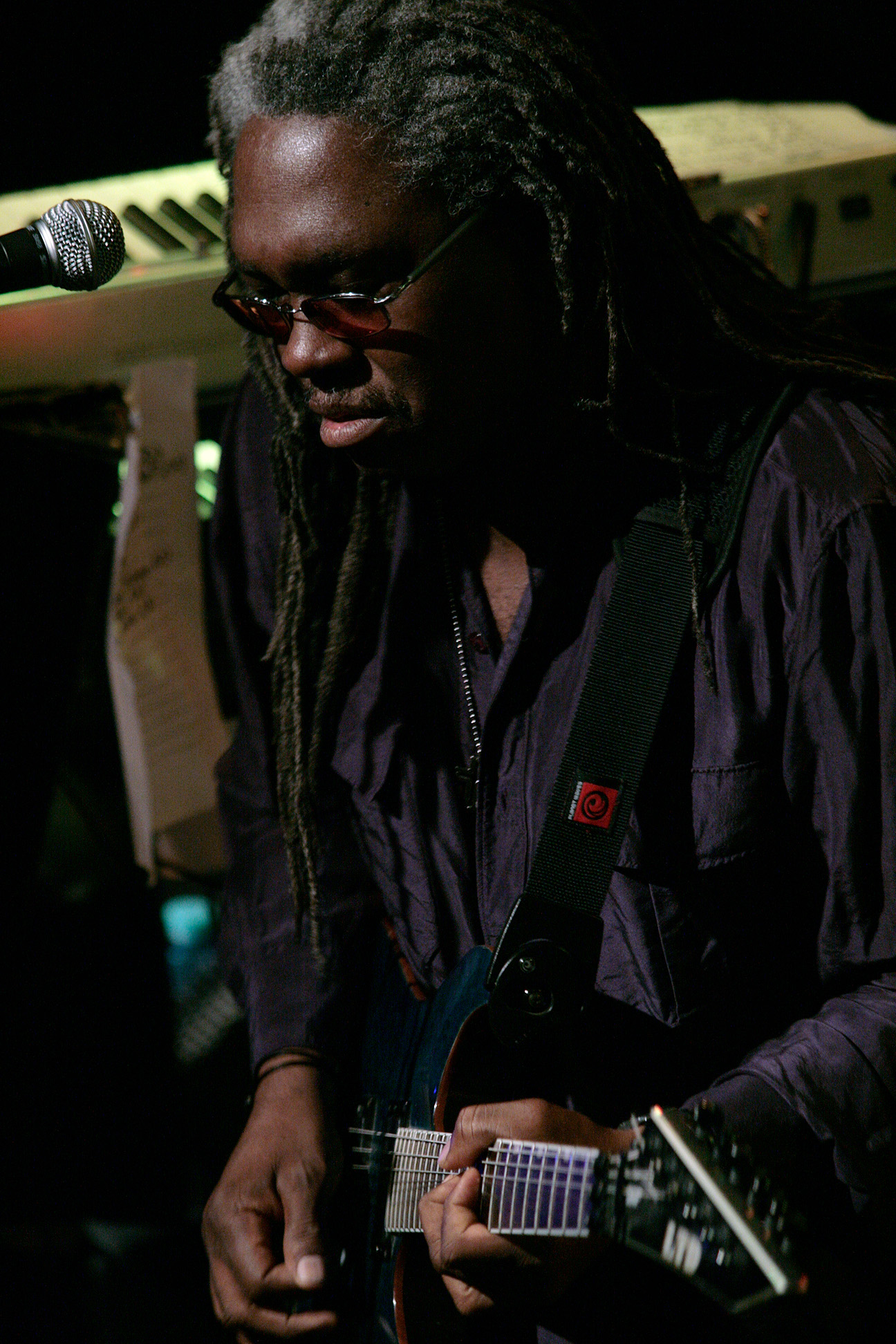 DeWayne "Blackbyrd" McKnight; concert with SociaLibrium at the jazz club Porgy & Bess in Vienna